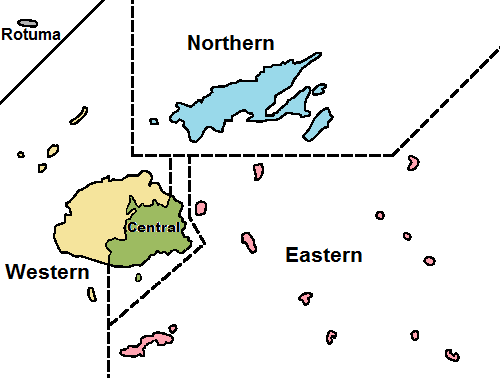 Divisions of Fiji. Colour-coded